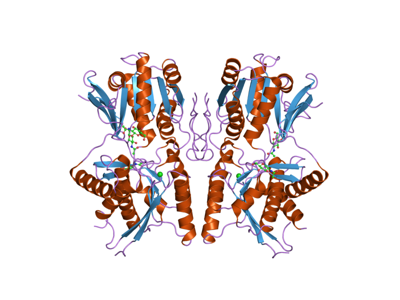 Cartoon representation of the molecular structure of protein registered with 1yk0 code.